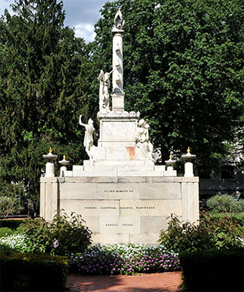 The Tripoli Monument is the oldest military monument in the United States. It honors heroes of the First Barbary War: Master Commandant Richard Somers, Lieutenant James Caldwell, James Decatur (brother of Stephen Decatur), Henry Wadsworth, Joseph Israel, and John Dorsey. It was carved in Livorno, Italy in 1806 and brought to the United States as ballast on board the USS Constitution. From its original installation in the Washington Navy Yard in 1808 it was moved to the west terrace of the United States Capitol in 1831, and finally to the United States Naval Academy in Annapolis, Maryland in 1860.